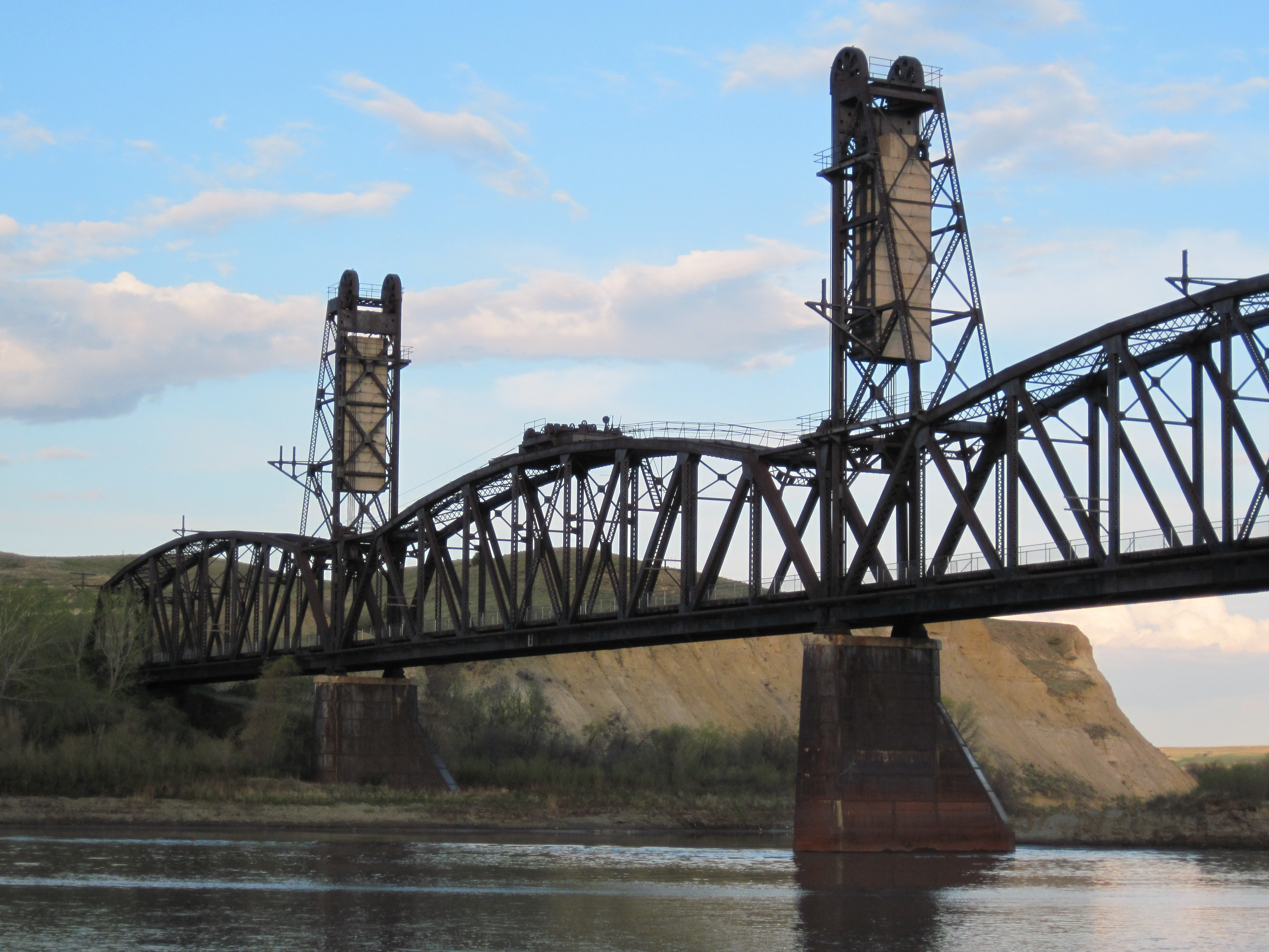 Fairview Lift Bridge, Abandoned railroad line over the Yellowstone River, approximately 0.75 miles south of ND 200 Cartwright